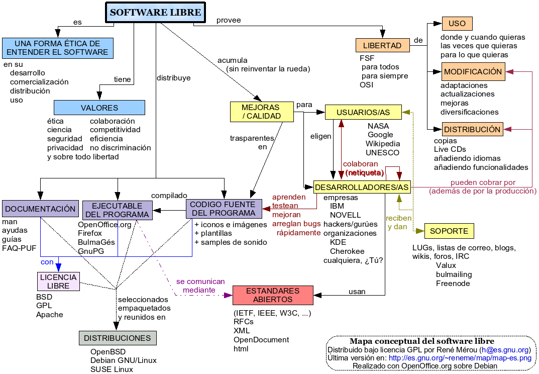 Conceptual map of Free Software (Spanish)